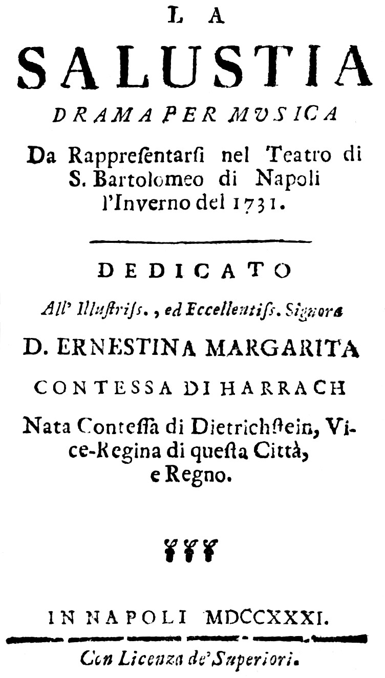 Giovanni Battista Pergolesi - Salustia - Titlepage of the libretto - Naples 1732